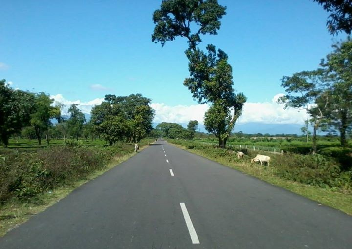 NH31